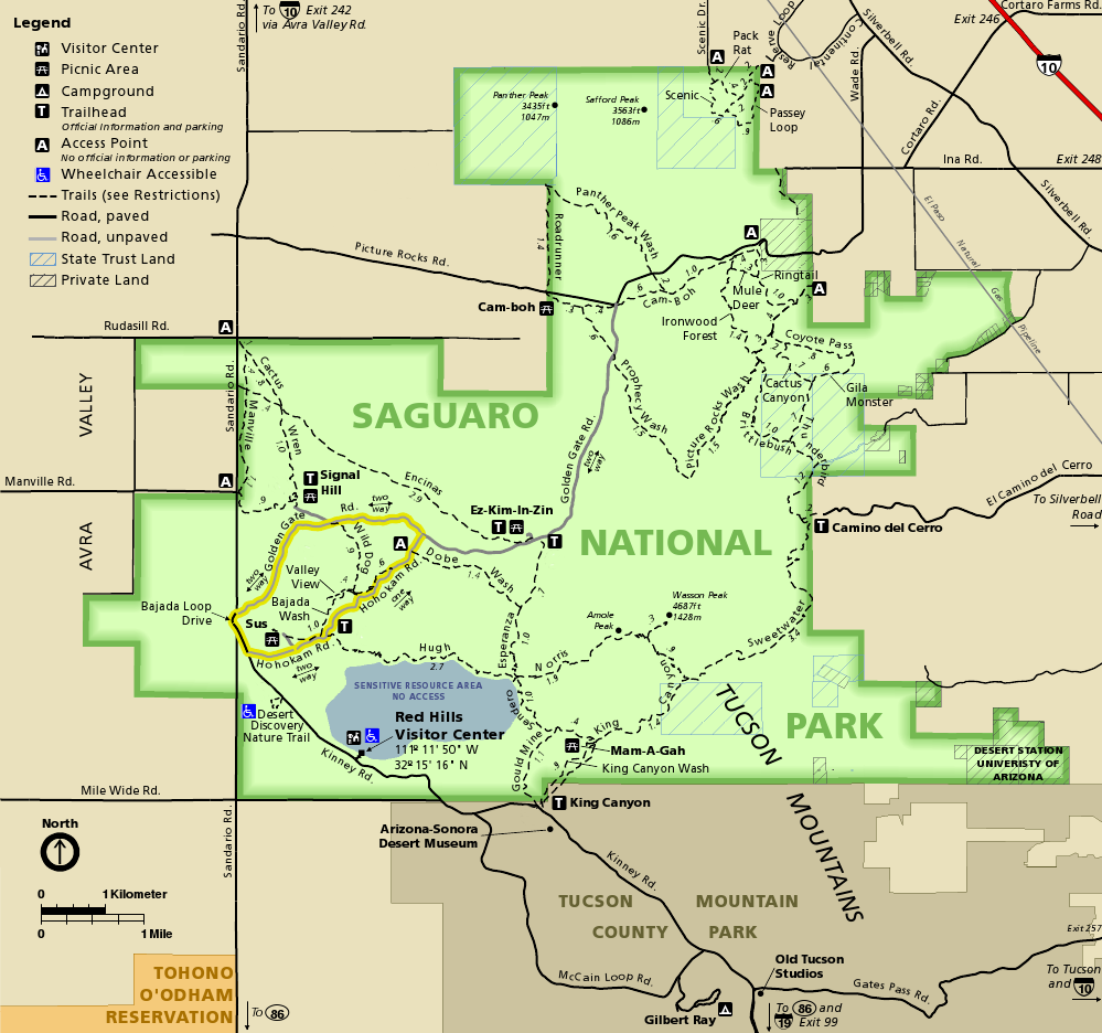 Map of the Tucson Mountain District of Saguaro National Park in the U.S. state of Arizona